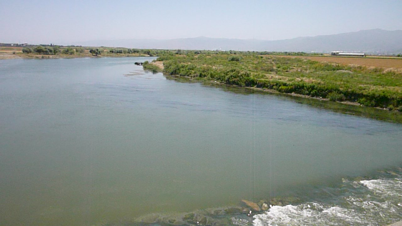 Sulukh bridge-6